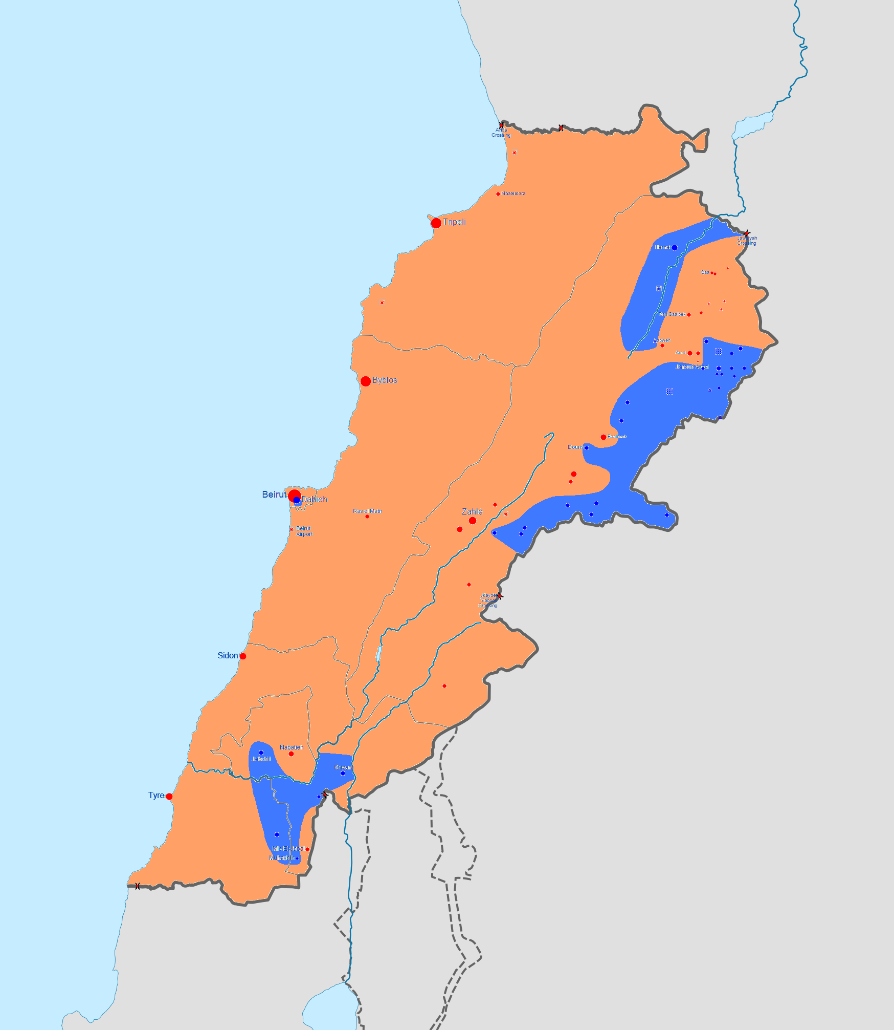 Map of the Lebanese insurgency. After updating this map, please also update the date(s) at Module:Iraq Syria map date, used to denote the date in articles. Controlled by the Lebanese Government Controlled by Hezbollah Controlled by the Islamic State of Iraq and the Levant (ISIL) Controlled by Tahrir al-Sham (HTS) and Sunni militants